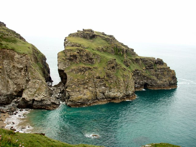 Lye Rock Evidence of coastal erosion in North Cornwall. There are lots of sea stacks. It looks as though Lye Rock will soon become one.